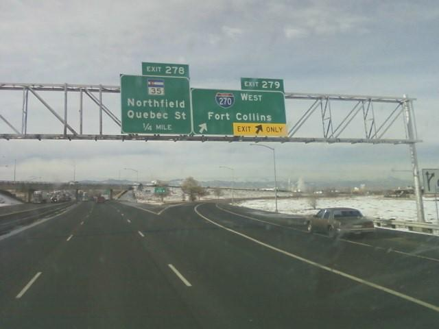 Interstate 70 westbound at exit 279; east end of Interstate 270. The stapleton neighborhood is split by I-70 here.